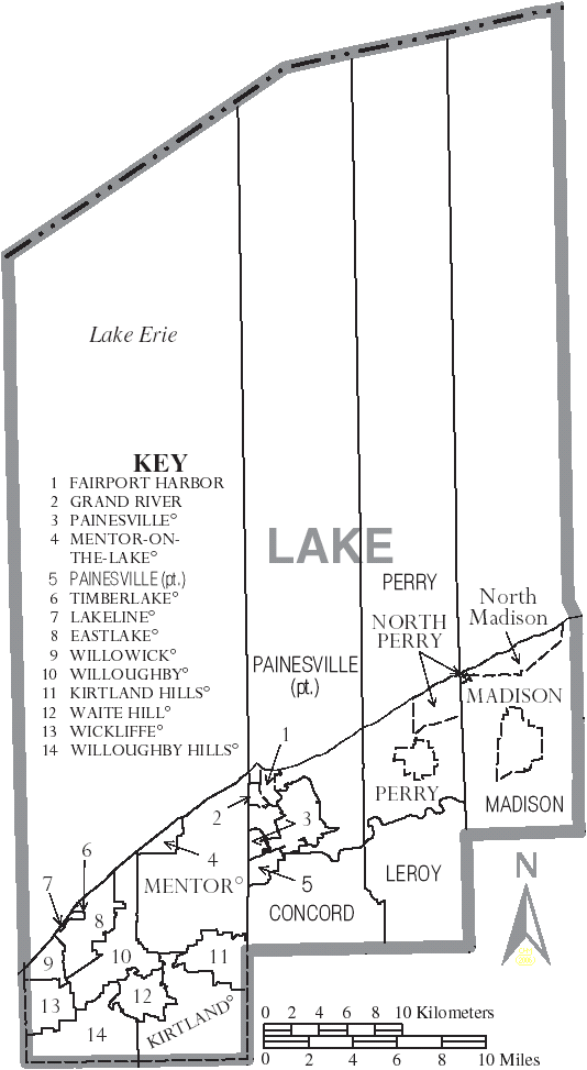 Map of Lake County, Ohio, United States with township and municipal boundaries